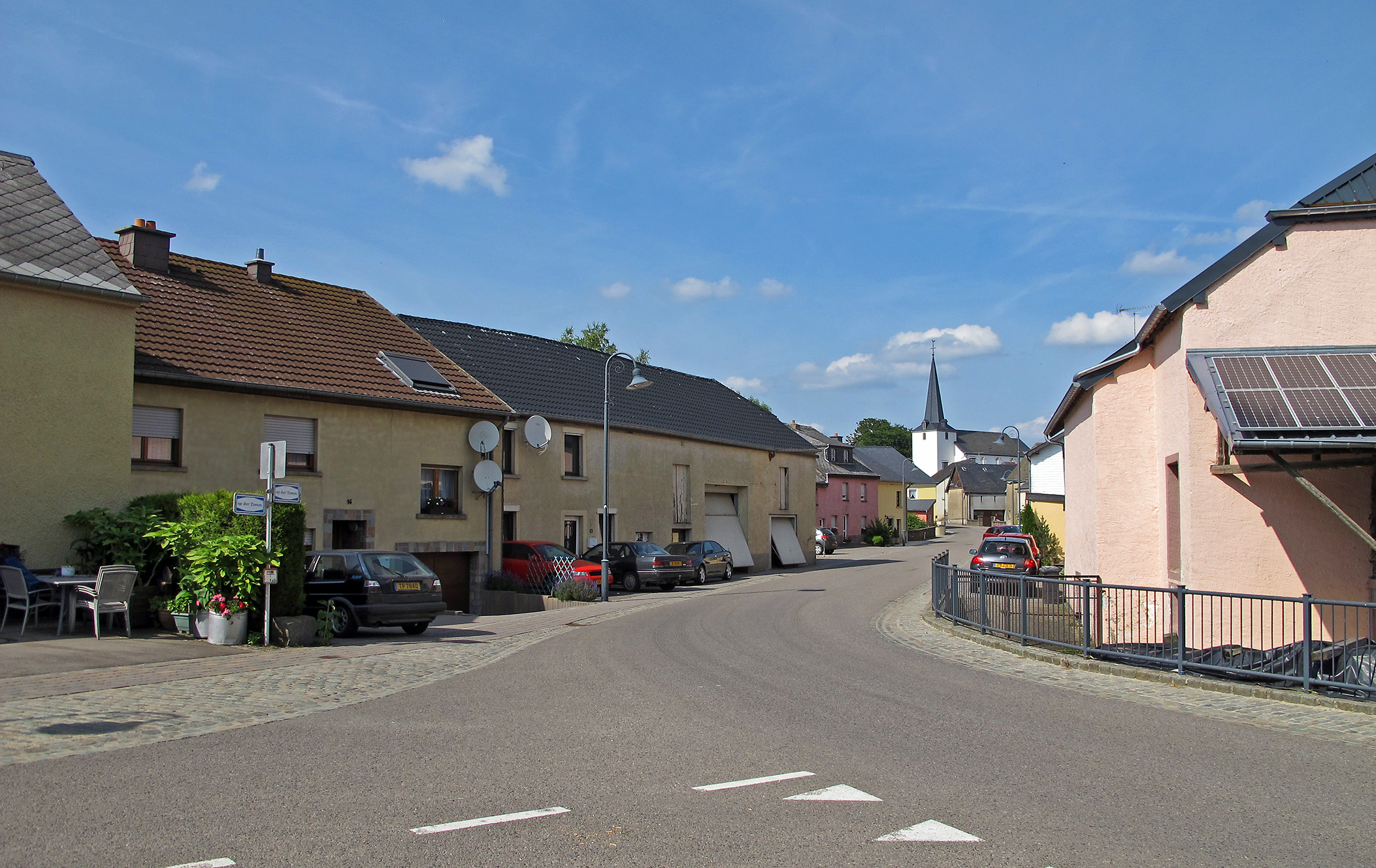 Goesdorf, Luxembourg, street Op der Tomm